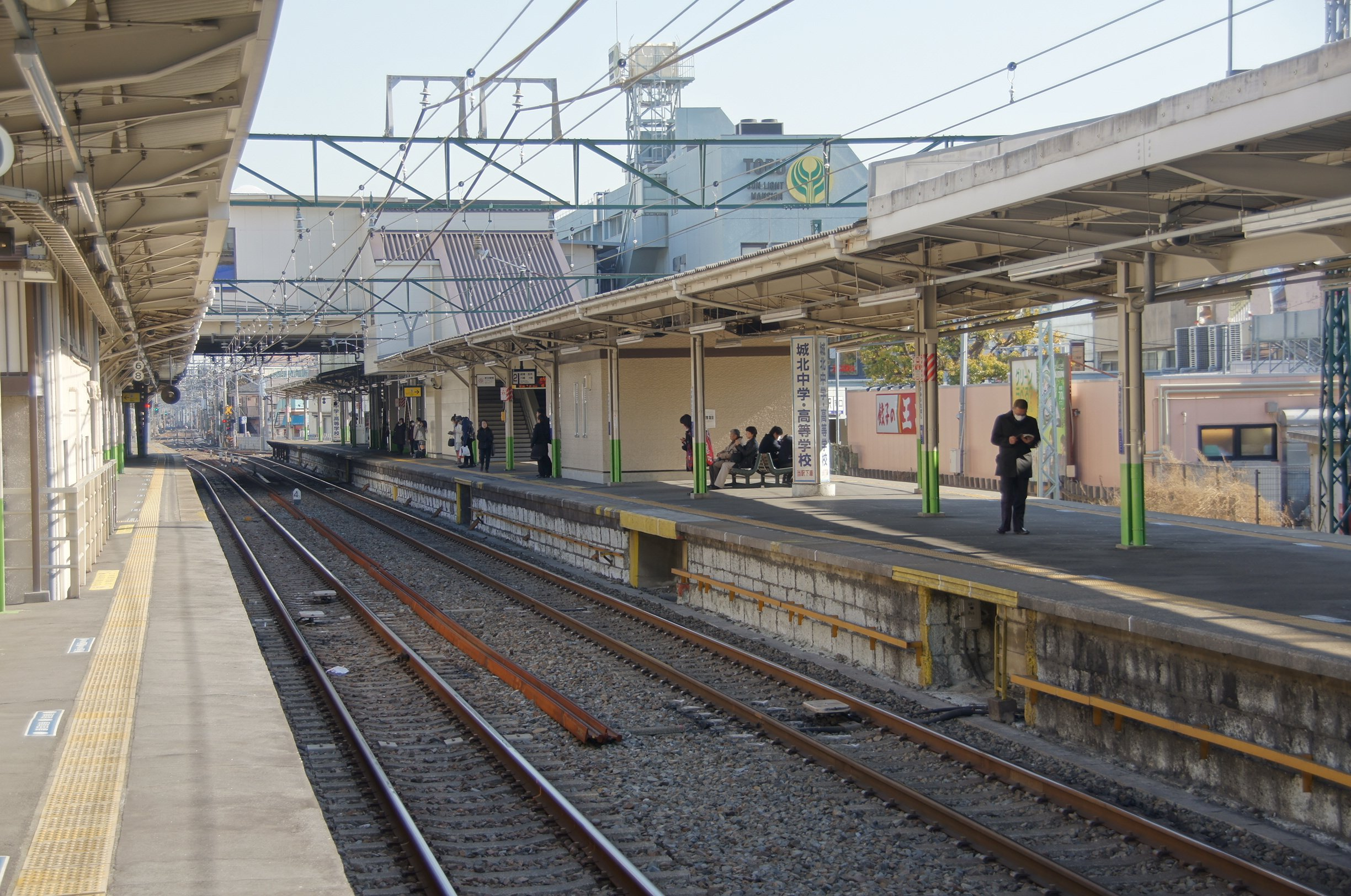 The up platforms of Kami-Itabashi Station on the Tobu Tojo Line, viewed from the down (Narimasu) end